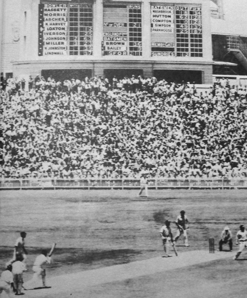 Sydney Cricket Ground Scorebaord in 1950